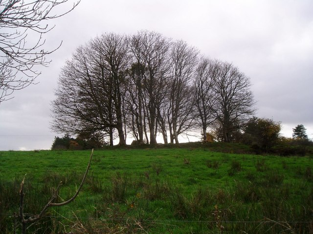 Ringfort at Cloonmung Ringforts are common in the Irish countryside. A ring fort is, in its simplest form, a circular space surrounded by a bank, with possibly a fosse or ditch outside the bank.The typical ring fort was used as a dwelling-place, and would have contained one or more simple houses made of upright wooden posts interlaced with a wattle-and-daub lattice construction. Also called 'Fairy Forts'.